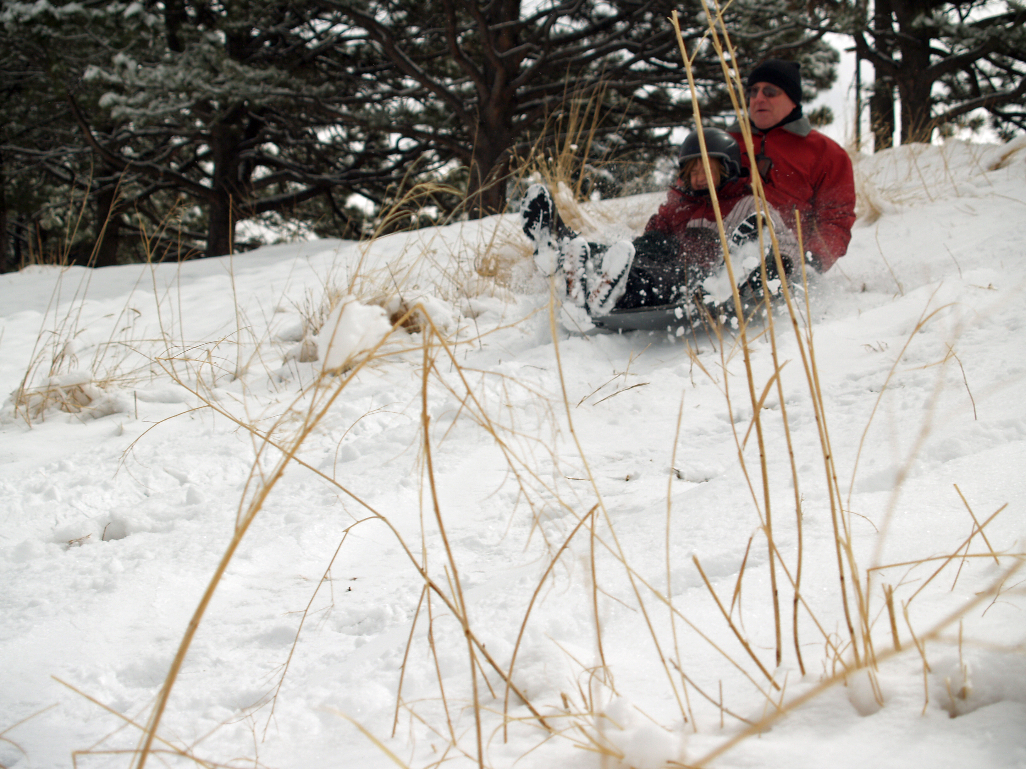 Sledding in Colorado Springs.